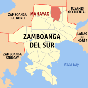 Map of Zamboanga del Sur showing the location of Mahayag